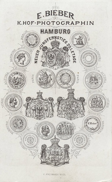 revers CdV E. Bieber, Mrs. E. Bieber (Royal Warrant of Appointment); code of arms, medals with front- and backside of given medals and names of the towns, where the exhibitions took place